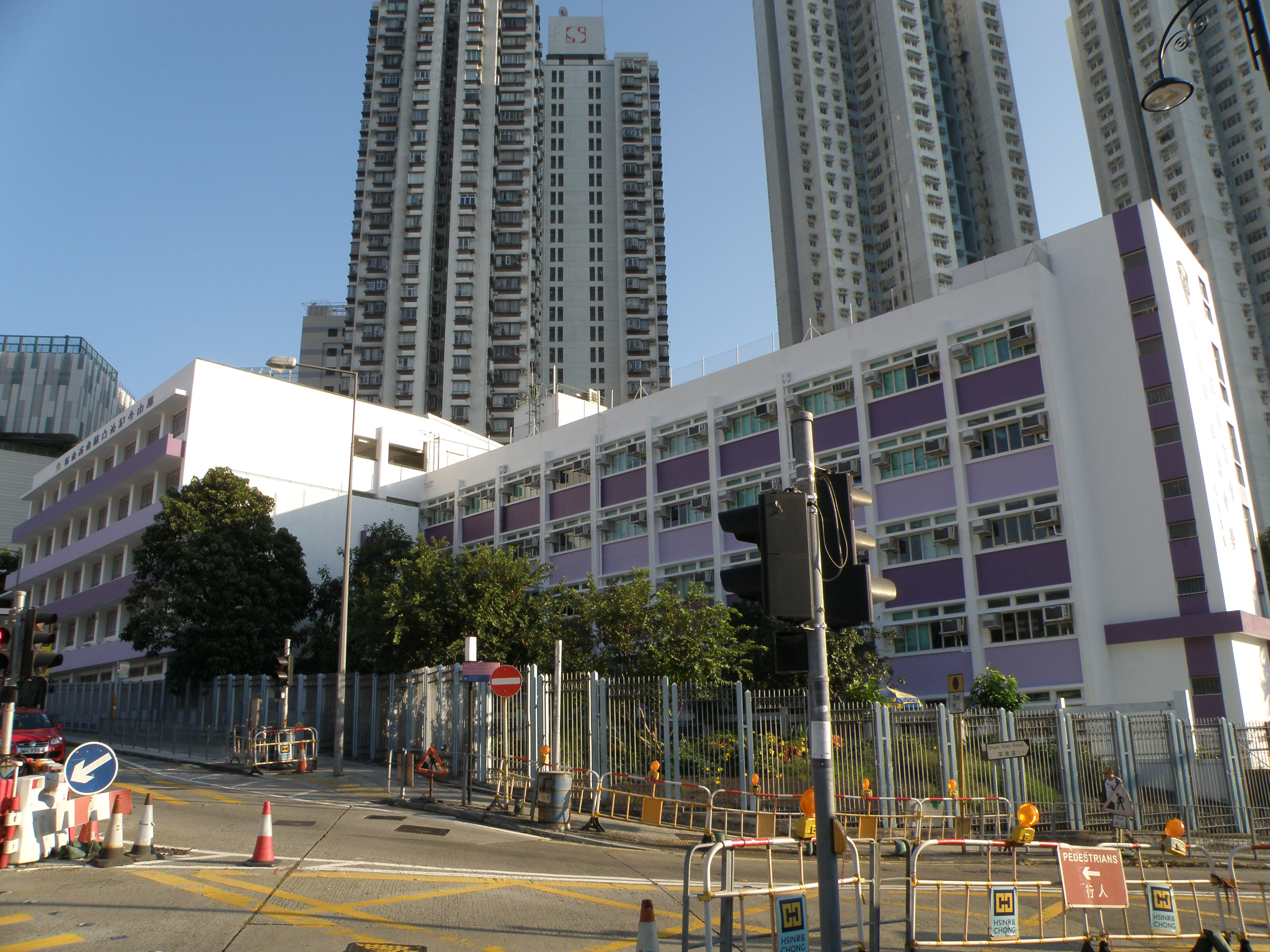 S.W.C.S Chan Pak Sha School in Wong Chuk Hang, Hong Kong.